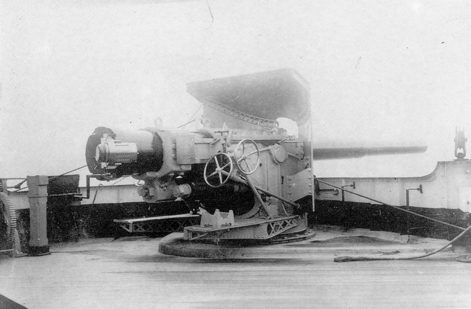 Imperial Russian cruiser Rossiya.